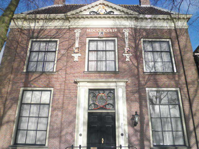 Chamber of the Dutch West India Company.